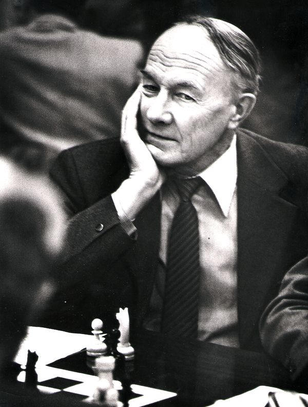 soviet chess player Anatoli Ufimzev